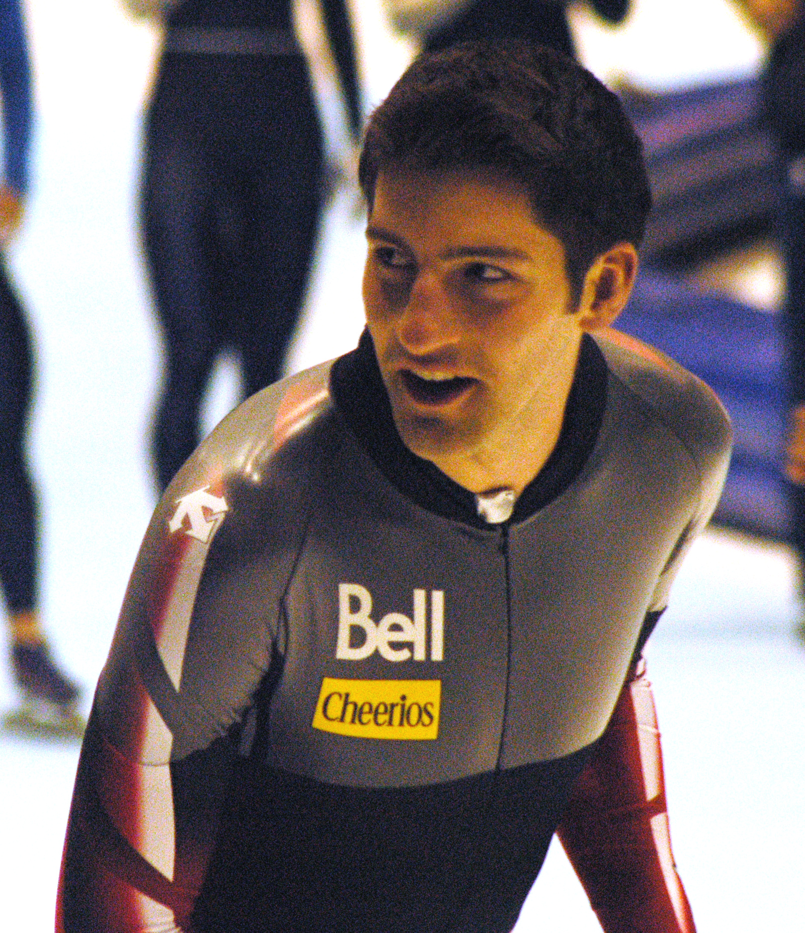 Jay Morrison (CAN) at a World Cup Speedskating in Thialf (Heerenveen, the Netherlands).